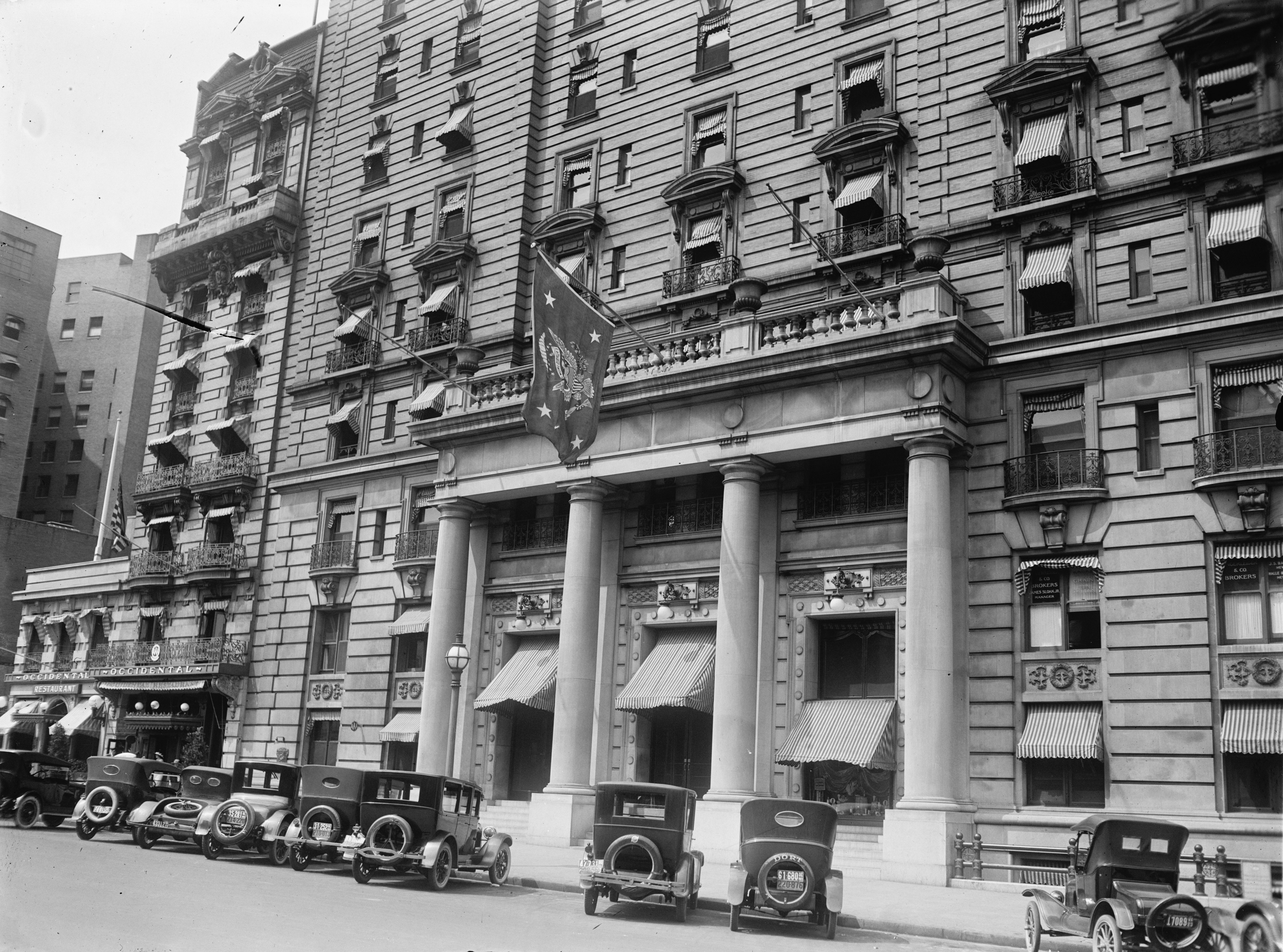 The Willard Hotel in Washington, D.C. flying the presidential flag (presumably indicating the President was staying there).